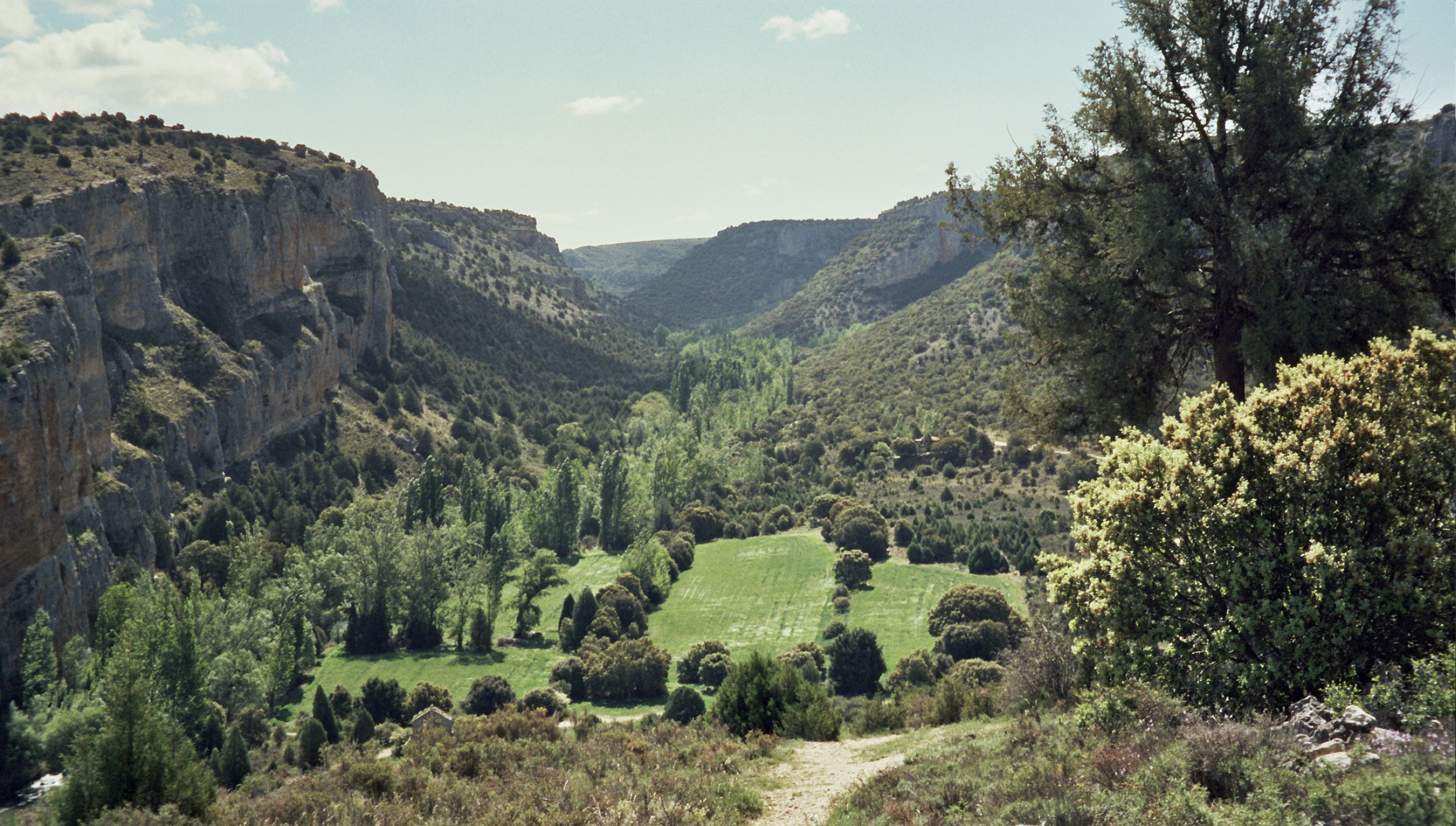 Gorge at Montejo de la Vega de la Serrezuela (Segovia, Spain), a natural reserve.